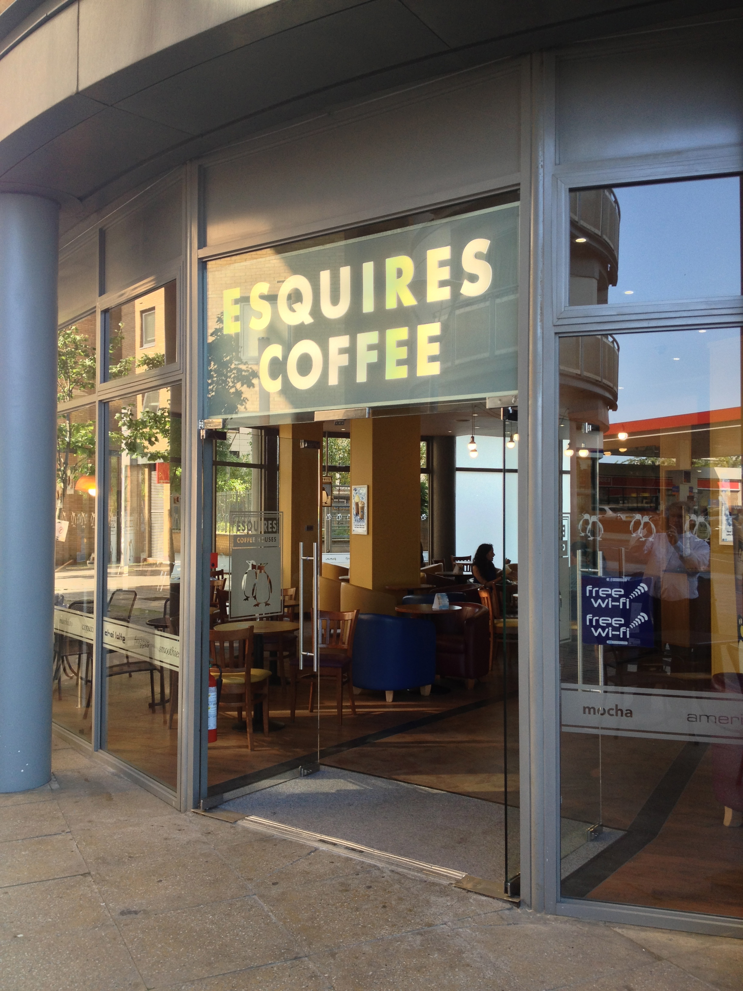 Main entrance of the Esquires Coffee Houses franchise in North Acton, London W3.